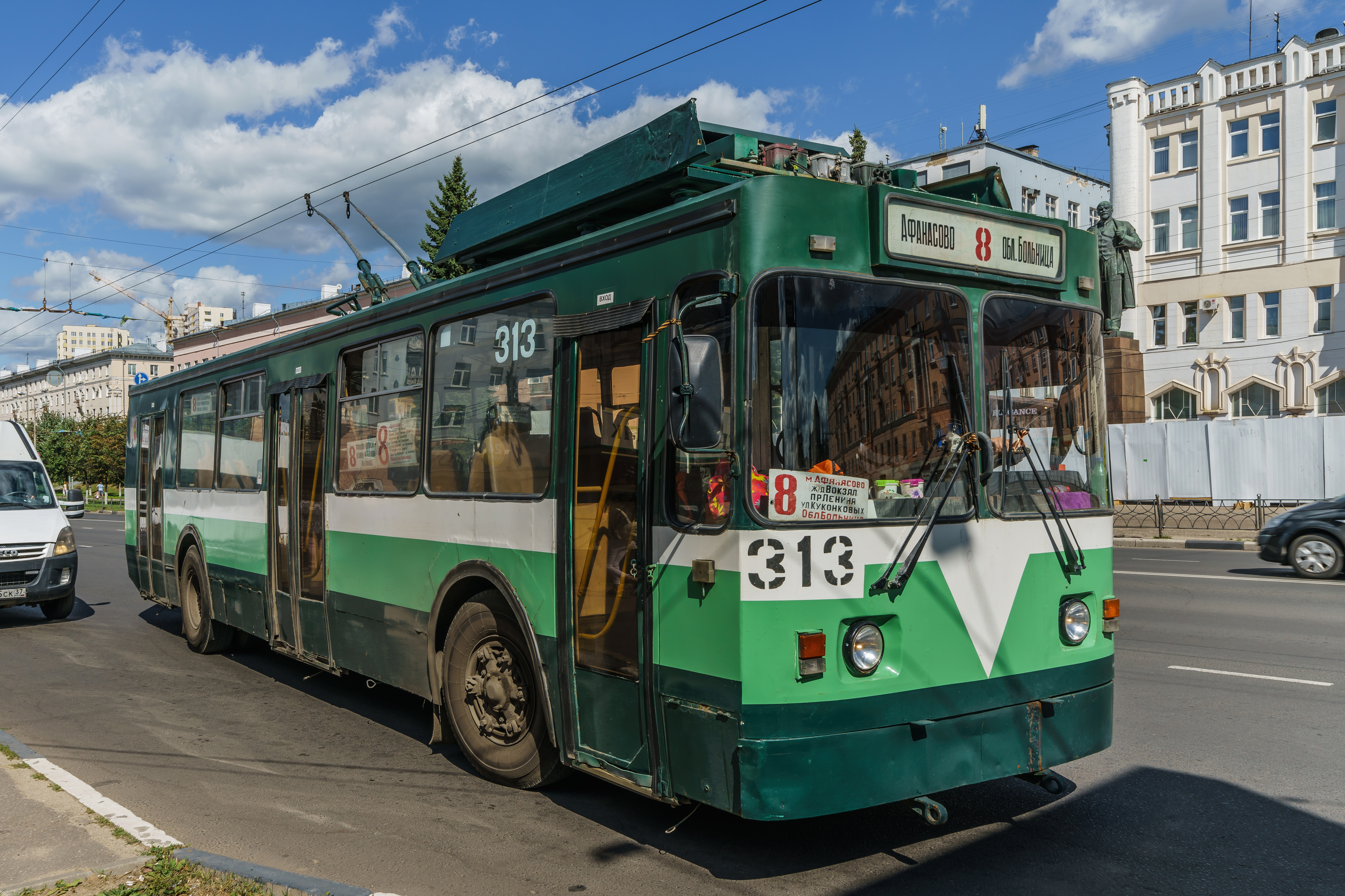 Trolleybus on route 8 on Lenina Prospekt in Ivanovo, Russia